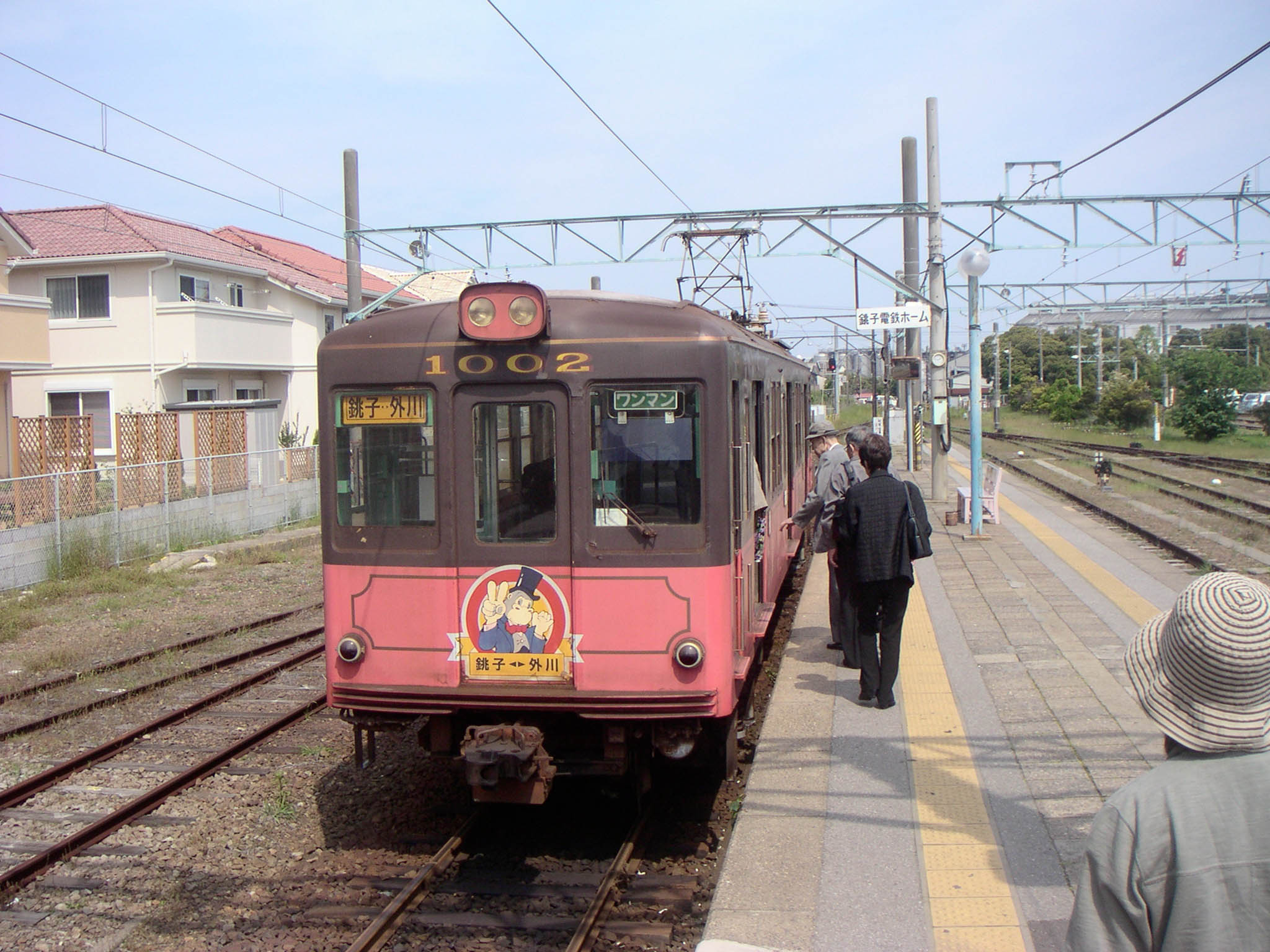 Choshi Electric Railway 1000 series EMU car DeHa 1002 in original livery at Choshi Station